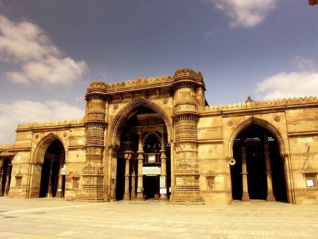 Jama Masjid (Friday Mosque, 15th century) in Ahmedabad (Gujarat, India)